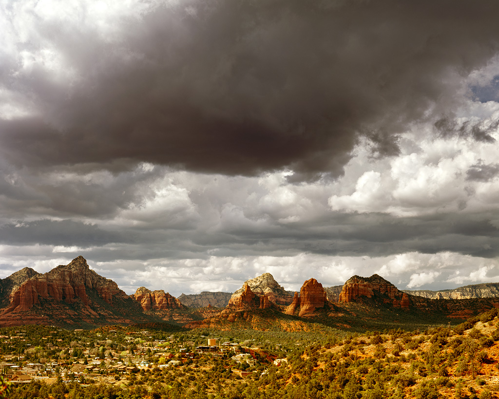 Photographed by Doug Dolde from Schnebly Hill Road in Sedona, Arizona. Arca Swiss 4x5 view camera, Fujichrome Provia 100F transparency film. More images from this location at